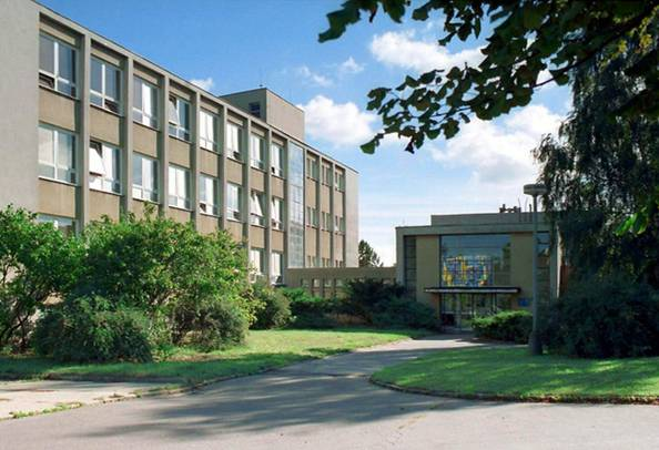 Main building of Institute of Chemical Process Fundamentals, ASCR, v.v.i. in Prague